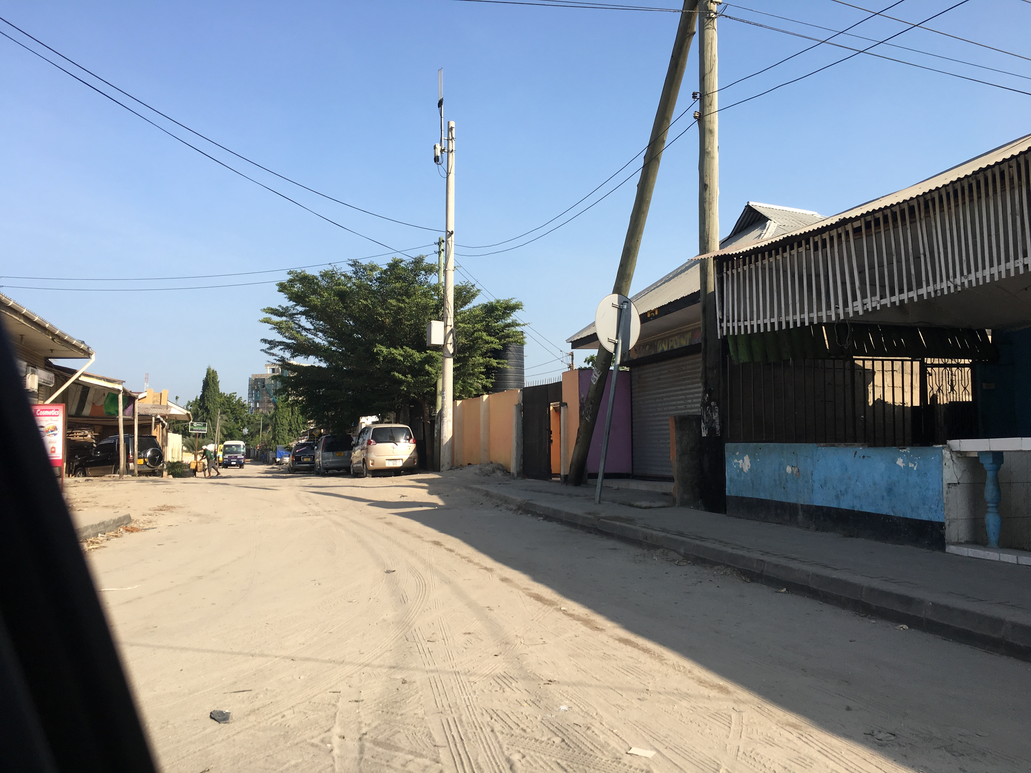 Mwananyamala, facing west on Kasaba St, near Kawawa Rd, June 2019